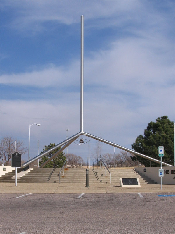 The Helium Monument Time Capsule in Amarillo, Texas, USA. It was constructed in the late 1960s.